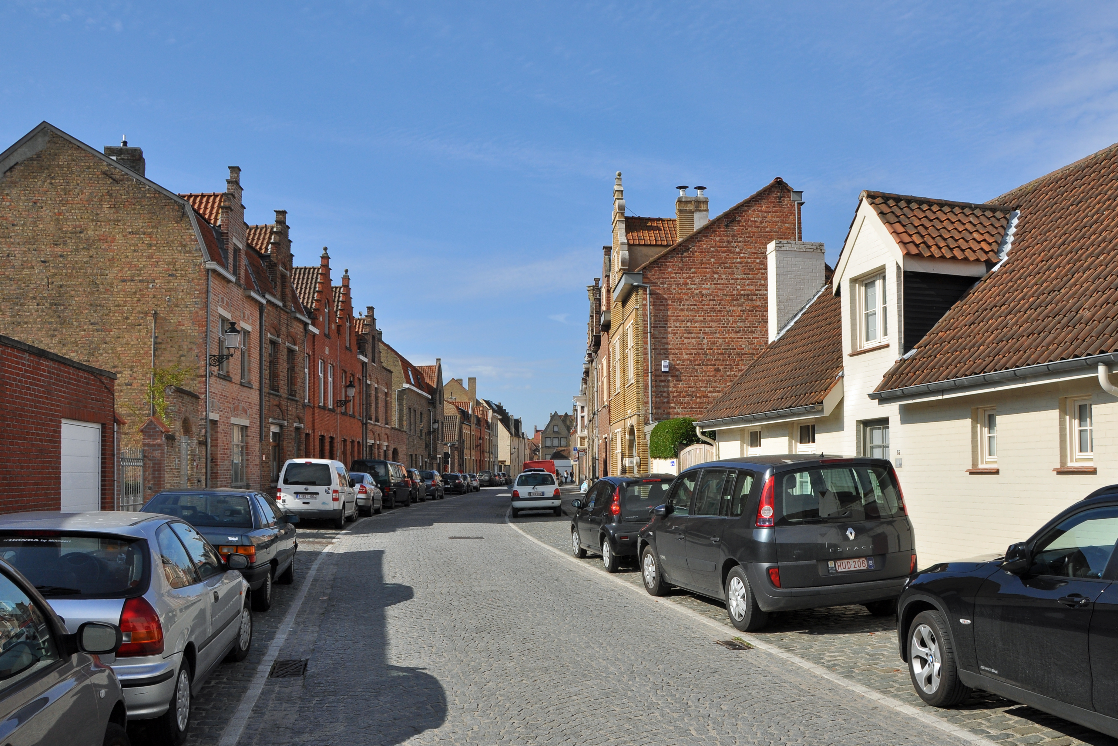 Bruges (Belgium): Hooistraat